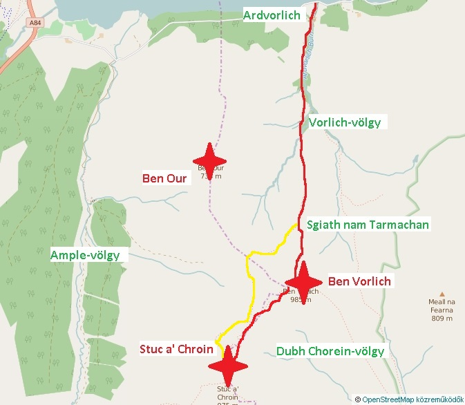 Trails leading to the summit of Stuc a Chroin and Ben Vorlich.